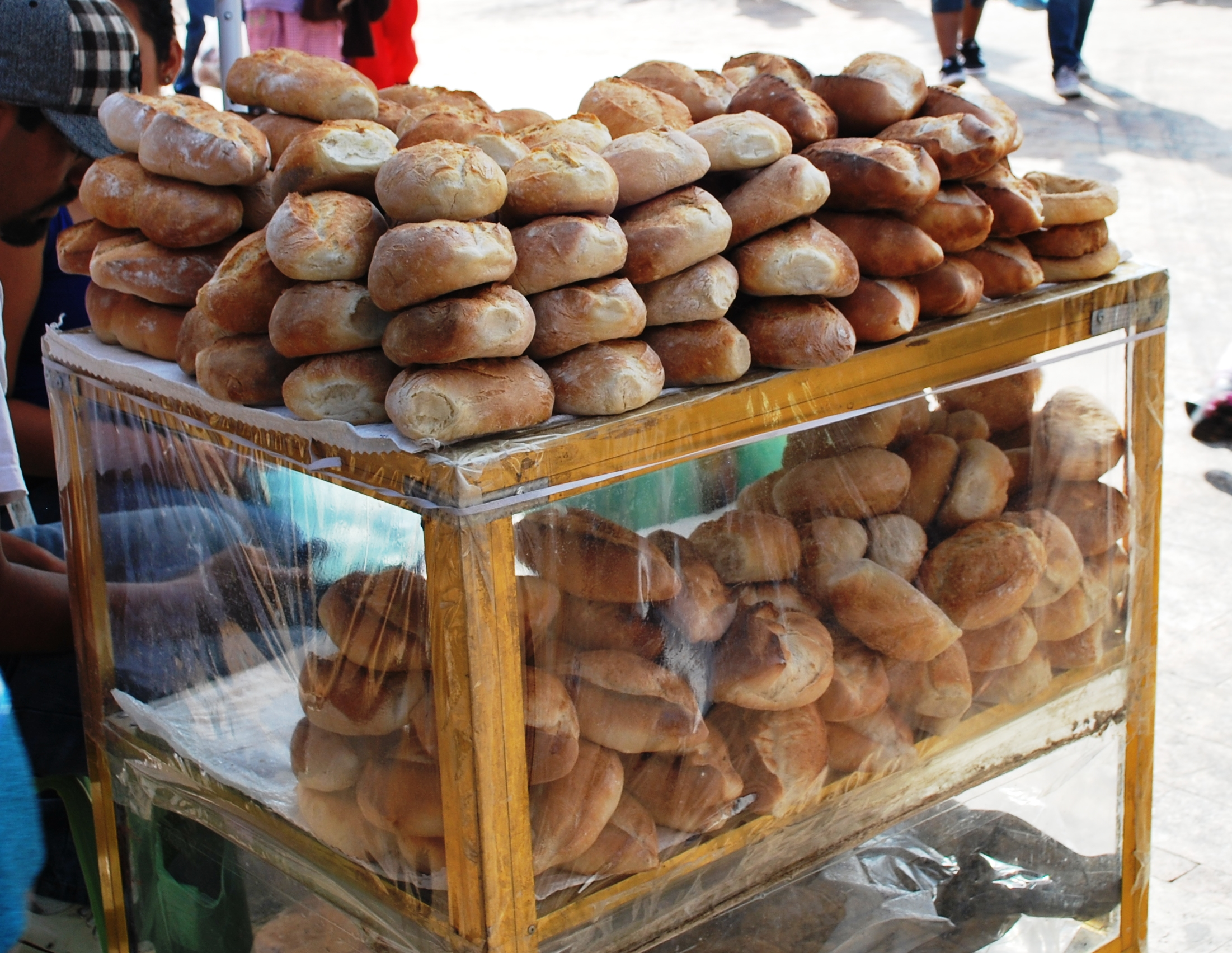 Street cart selling bolillos (a kind of roll) in San Juan de los Lagos, Mexico